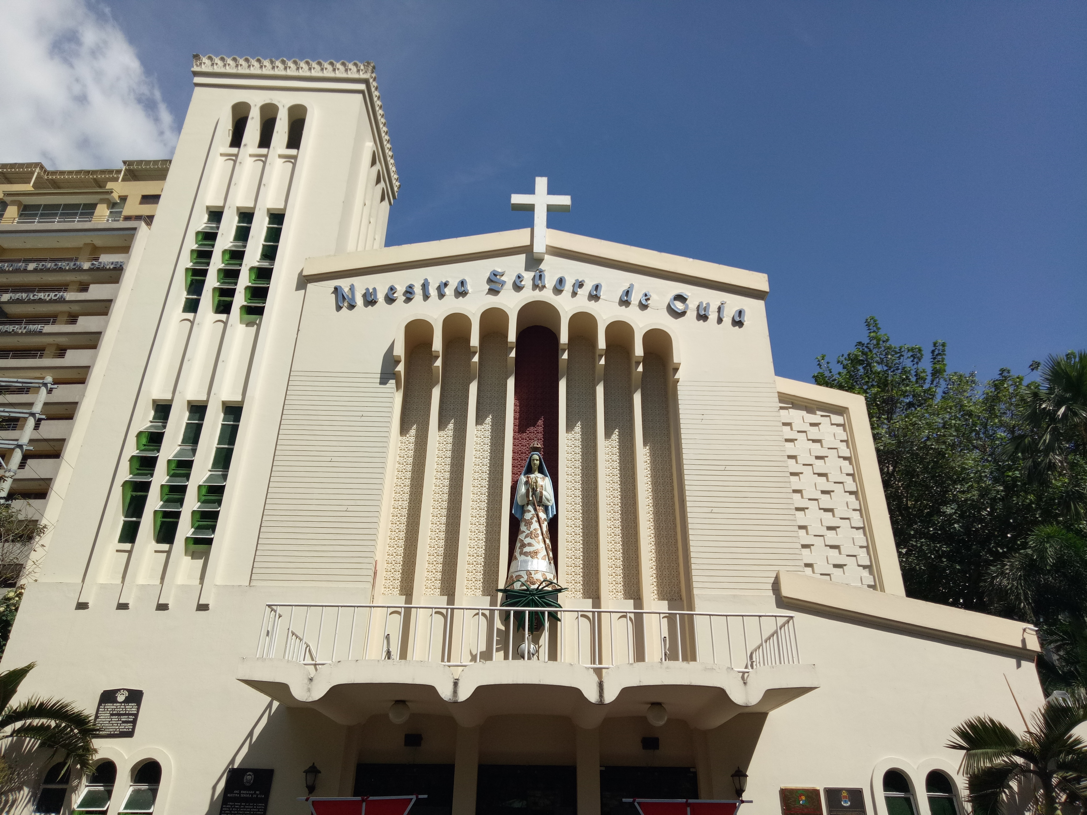 Upper facade of Nuestra Señora de Guia Church in Ermita, Manila